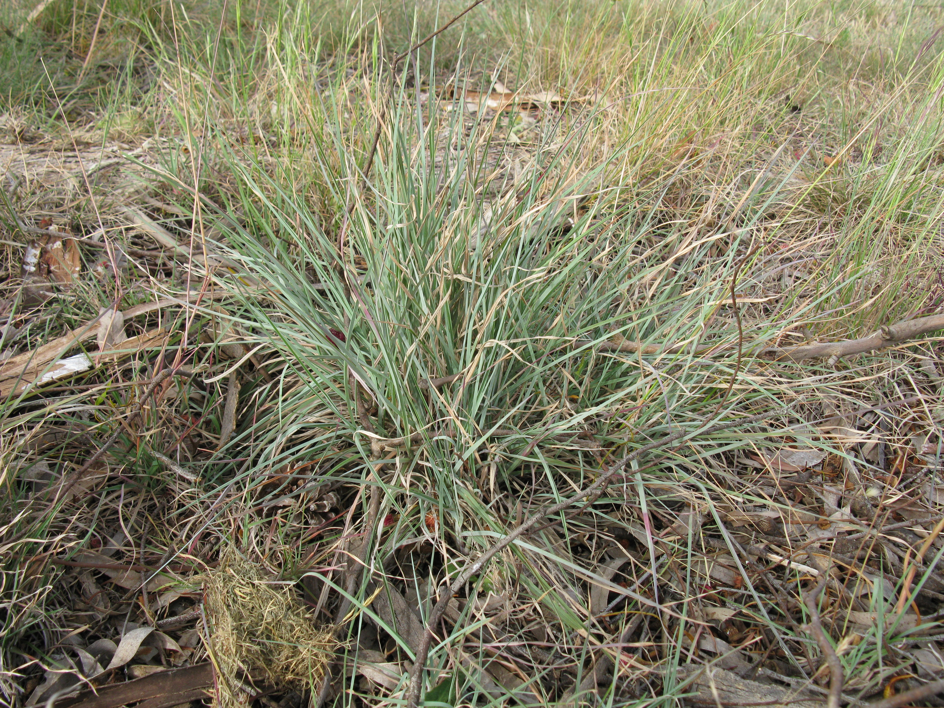 Native, warm-season, perennial, tufted grass to 120 cm tall. Flowerheads are spatheate panicles. Flowers from spring to autumn. Most commonly found in ungrazed to lightly grazed areas that have not been ploughed, but have occasionally been burnt (e.g. roadsides, railways, native pastures, woodlands and forests). This shot was taken on a seaside headland at South West Rocks and shows the typical very low growing habit of plants in this situation. Native biodiversity. An important habitat for many native animals. Drought tolerant. Frost sensitive, but one of the earliest warm-season native perennials to break dormancy in spring. Palatability and feed quality are low when mature, although young growth is palatable to stock. Shows little response to fertiliser. Decreases under moderate to heavy grazing pressure. Use cattle, rotational grazing, low stocking rates, avoid frequent close grazing and/or rest in autumn for best persistence and production.